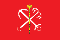 St. Petersburg (Russia), flag